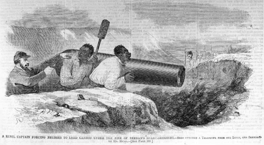 A Rebel Captain Forcing Negroes to Load Cannon Under the Fire of Beedan's Sharp-shooters (May 1862), by Harper's Weekly